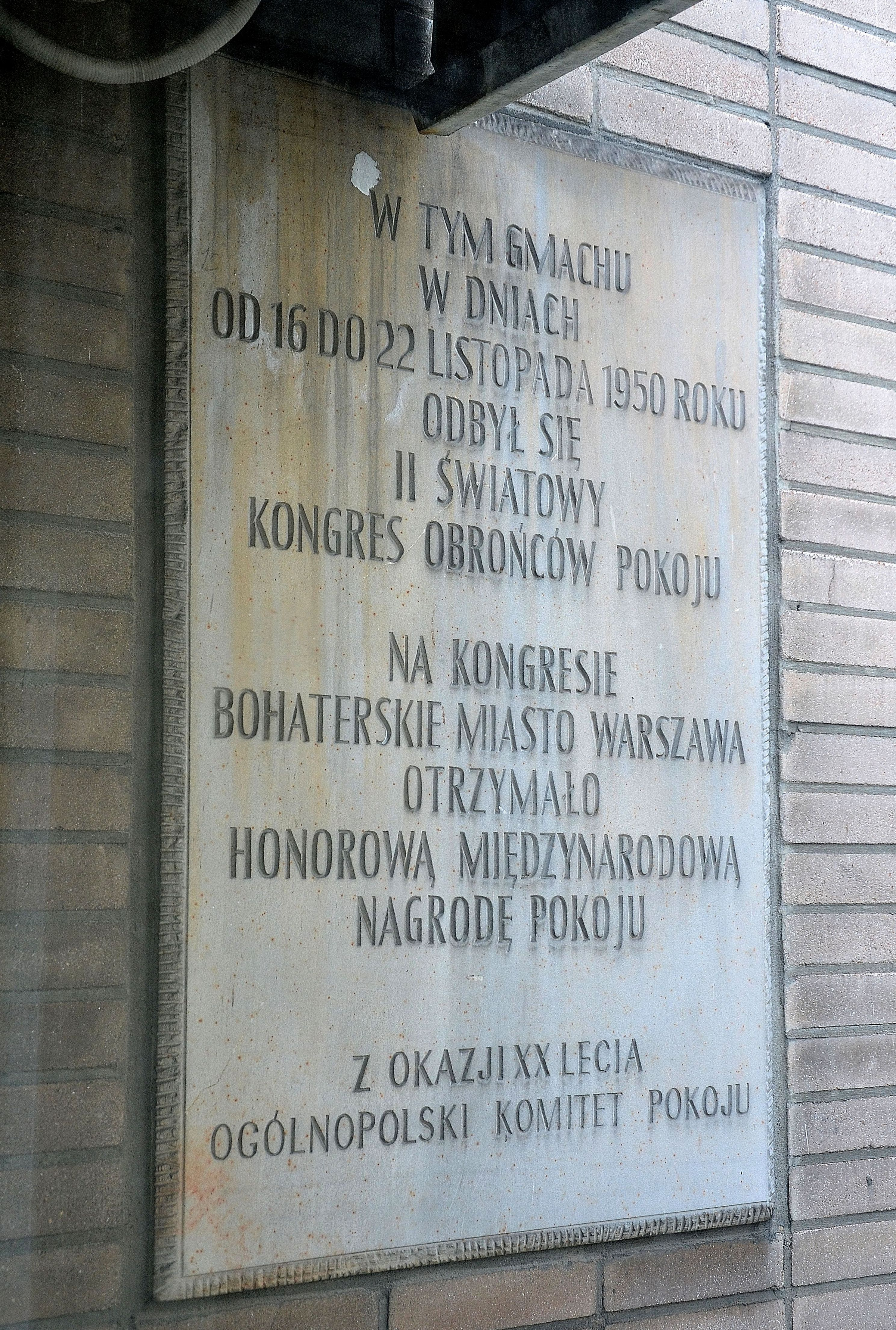 Commemorative plaque near the entrance to Dom Słowa Polskiego Printing House in Warsaw